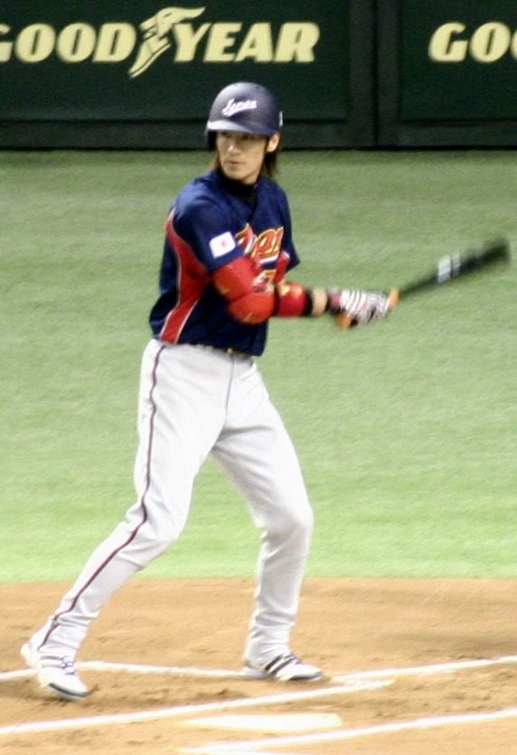 Tsuyoshi Nishioka, infielder of the Japan national baseball team, at Tokyo Dome.